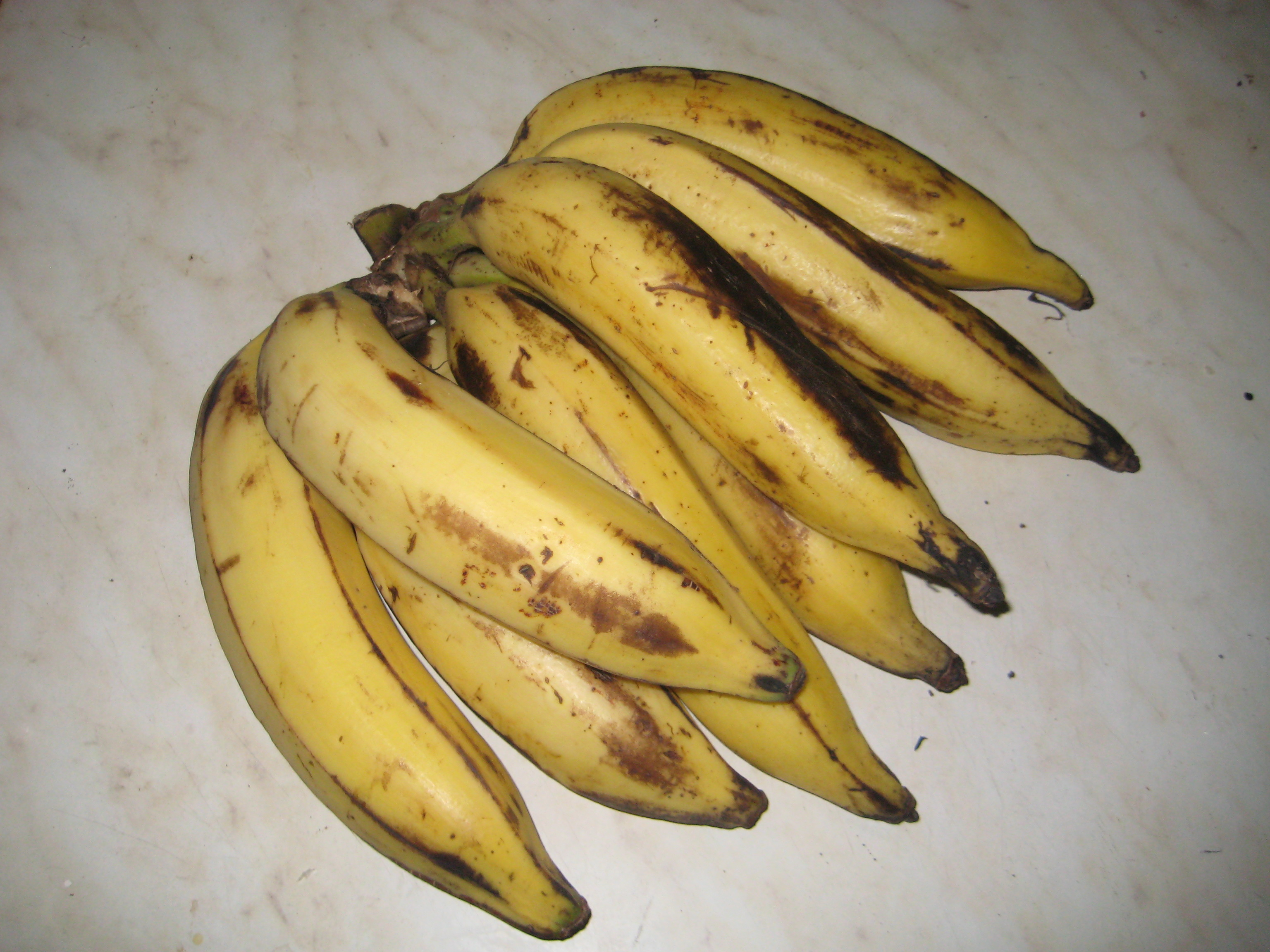 Indian Banana